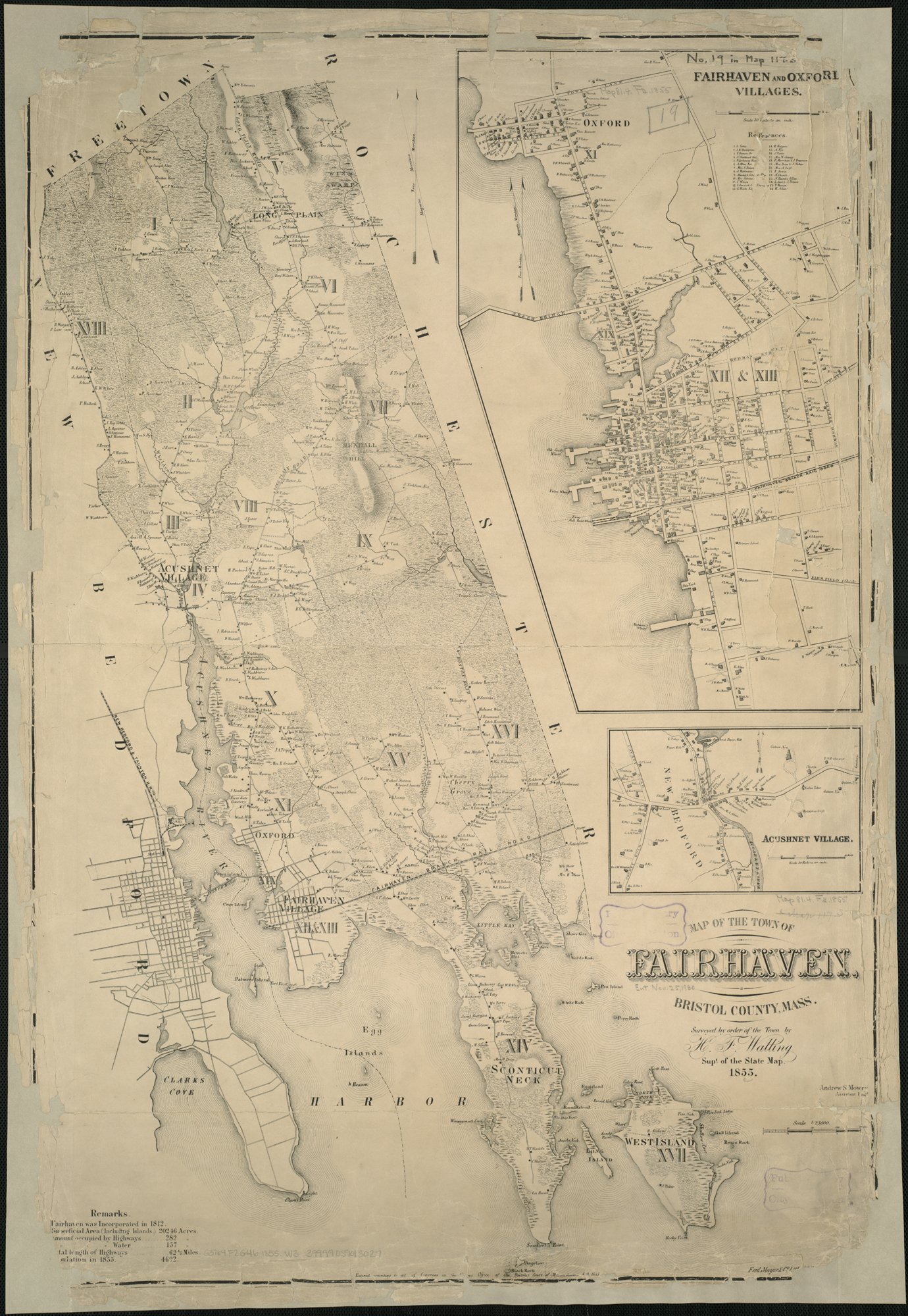 Zoom into this map at . Author: Walling, Henry Francis Publisher: Ferd. Mayer & Co. Date: 1855 Location: Acushnet (Mass. : Town), Fairhaven (Mass.) Dimension: 81 x 55 cm Scale: 1:25,000 Call Number: G3764.F2G46 1855 .W3